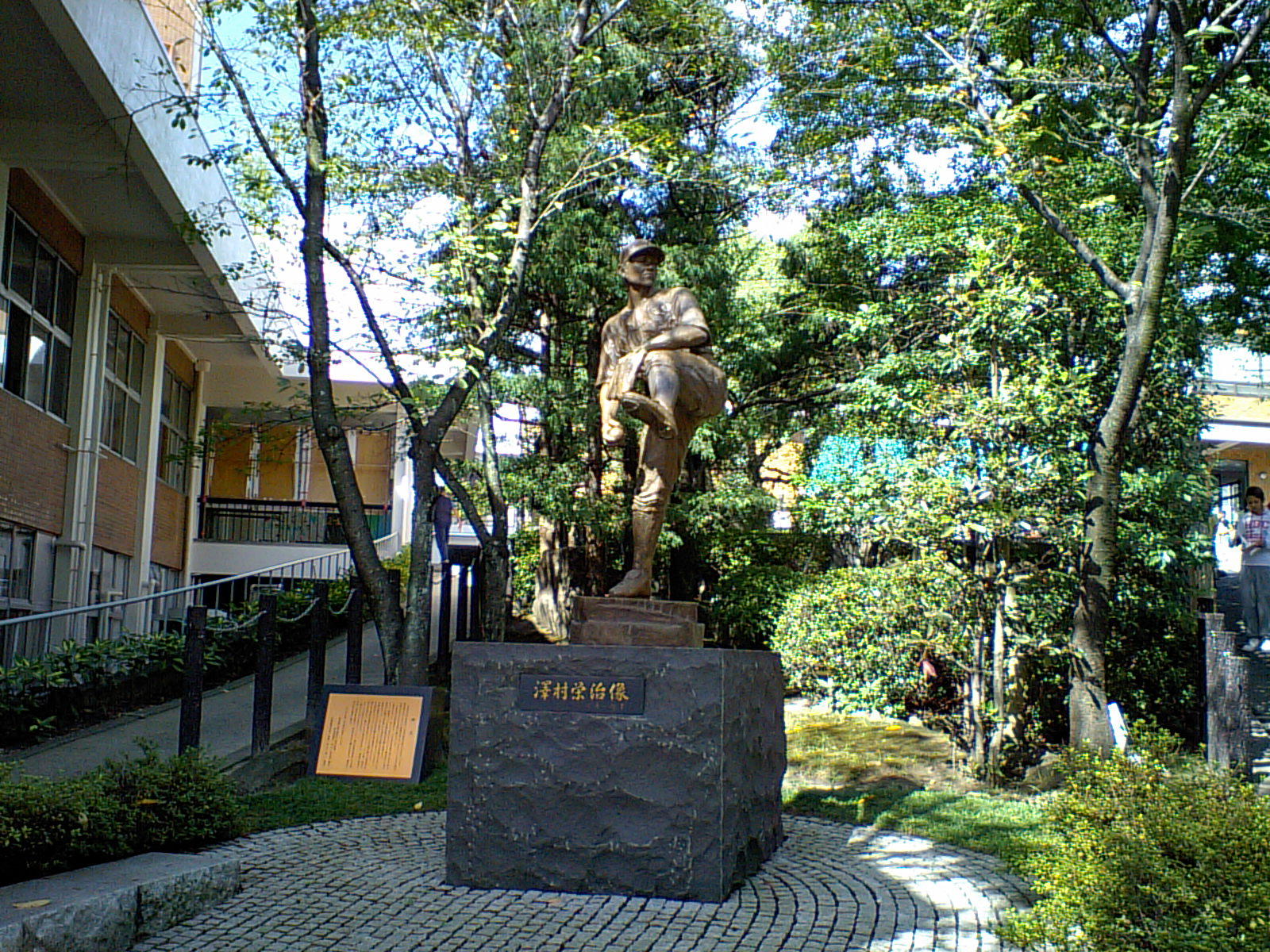 SAWAMURA Eiji's Statue at Kyoto Gakuen Junior/Senior High School